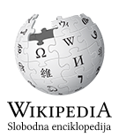 Wikipedia logo 2.0